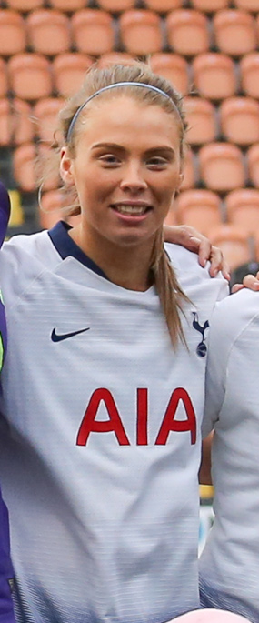 London Bees v Tottenham Hotspur LFC, 10 February 2019 - Tottenham Hotspur starting team photo.